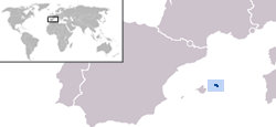 Location of Menorca (Spain)